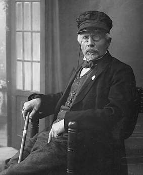 Olof Högberg as aging patriarch in his home Finnkyrka in Njurunda, where he lived with his sister, Kajsa, 1911-32.